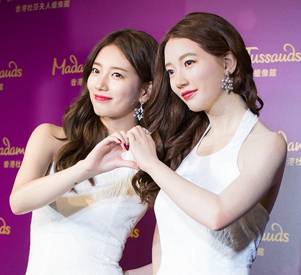 Suzy with her wax figure, Madame Tussauds Hong Kong, 13 September 2016